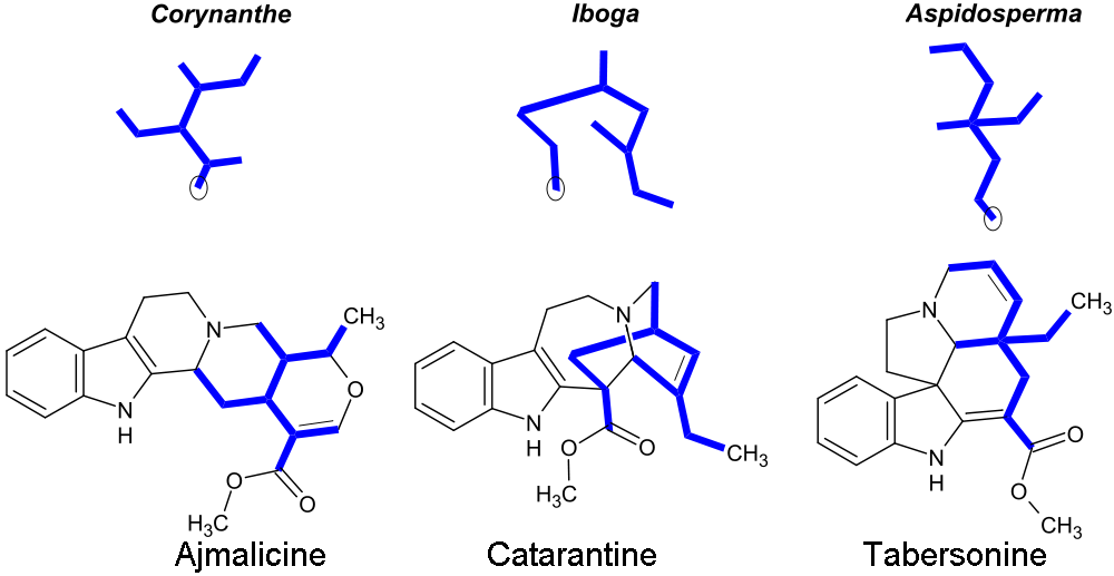 Monoterpenoid indole alkaloids types: Corynanthe (illustrated with Ajmalicine), Iboga (illustrated with Catharanthine), Aspidosperma (illustrated with Tabersonine). Russian titles.